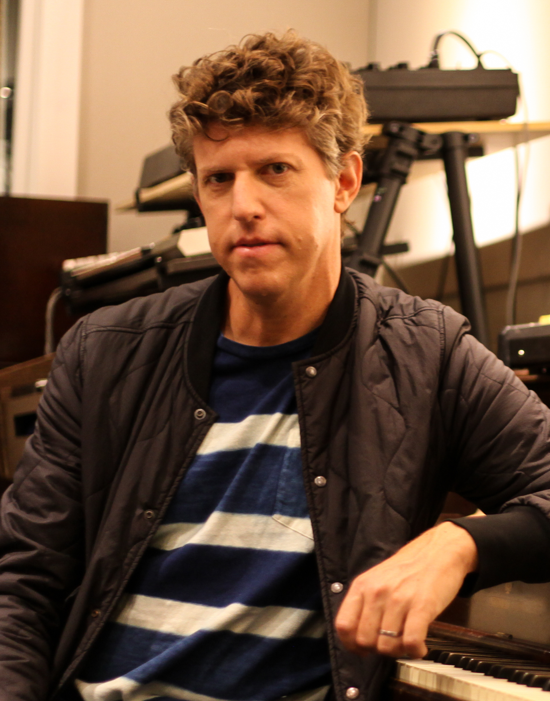 Producer Greg Kurstin at the board in 2017.